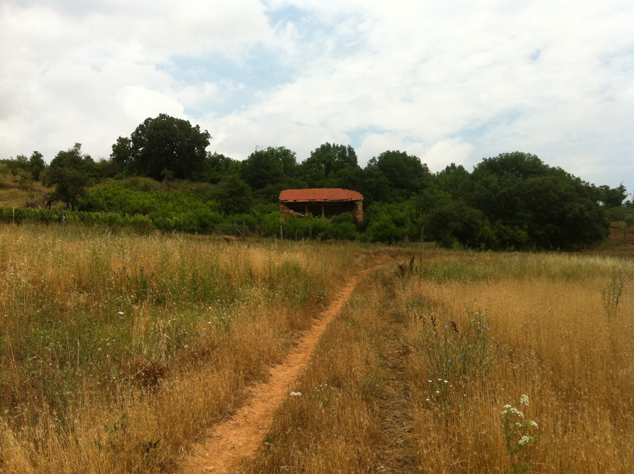 village of Beleštevica, near Veles, Macedonia